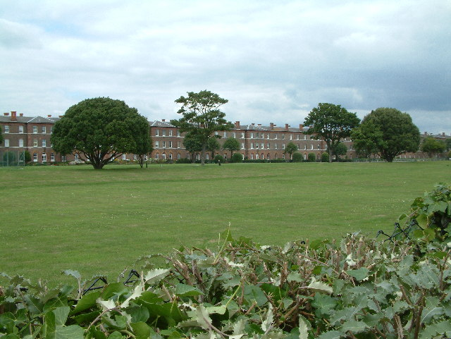 Gunners Row, Eastney. This is the former Royal Marines men's barrack block, the front of which was known as 'Gunners Walk'. After the conversion to flats the building was renamed 'Gunners Row'.